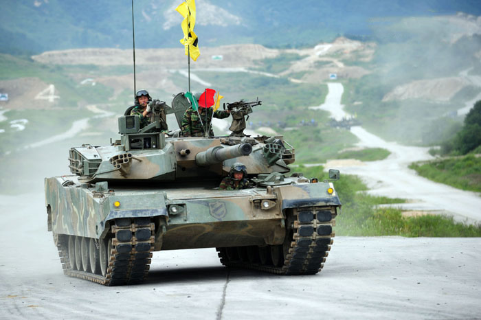 2011. 9. 육군 세계최강! 대한 육군의 주력 K1-A1전차 '불을 내뿜다' Rep. of Korea Army K1-A1 Tank